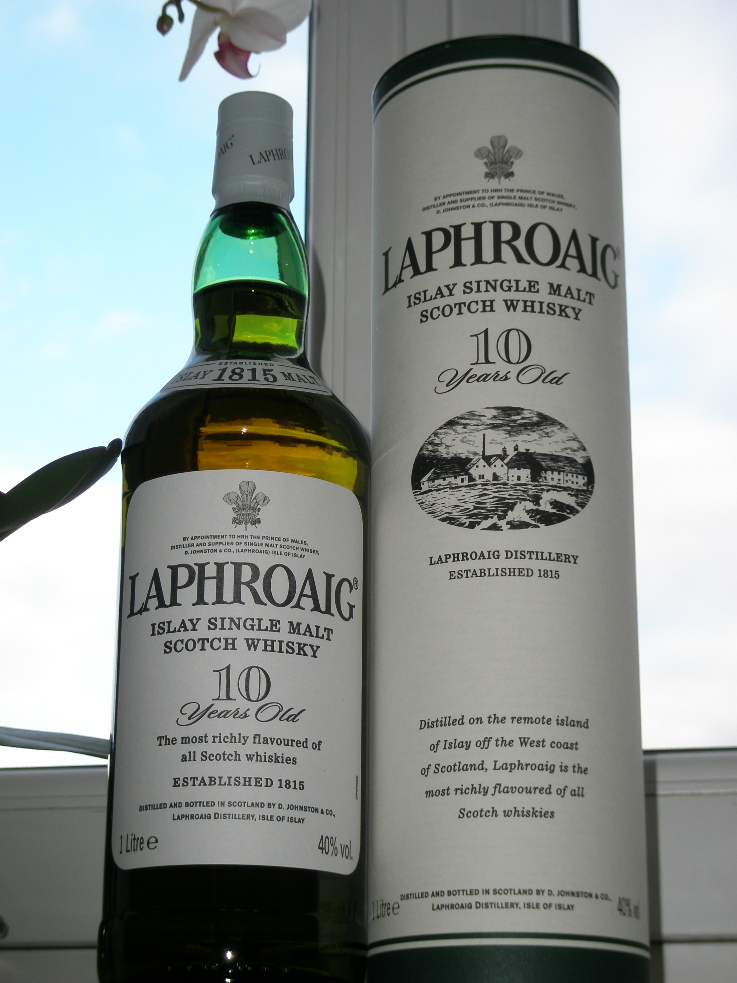 bottle of Laphroaig 10 YO